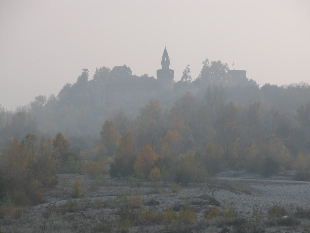 Castle of Rivalta